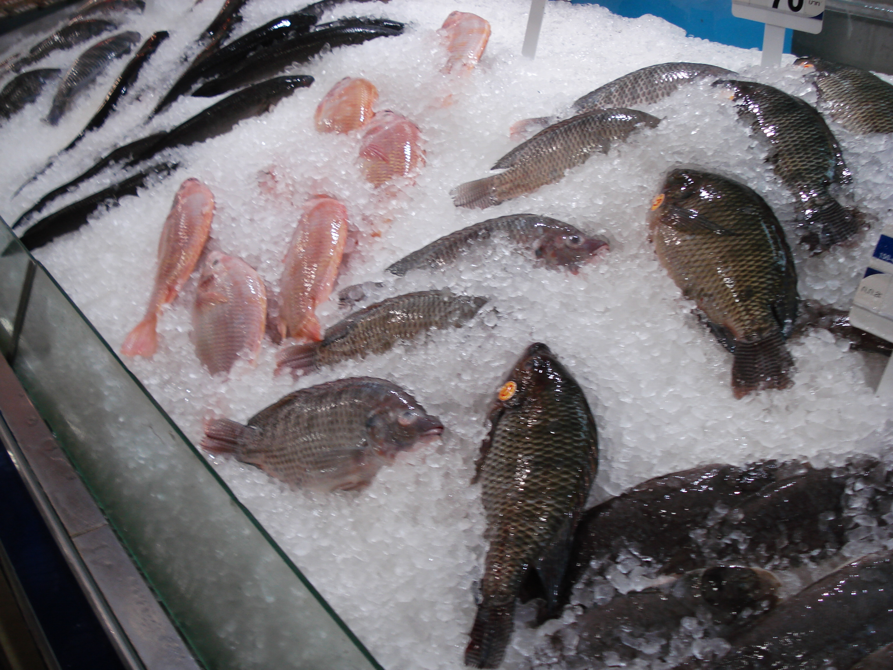 fish, packed in ice, supermarket Tesco-Lotus, Udonthani, Thailand